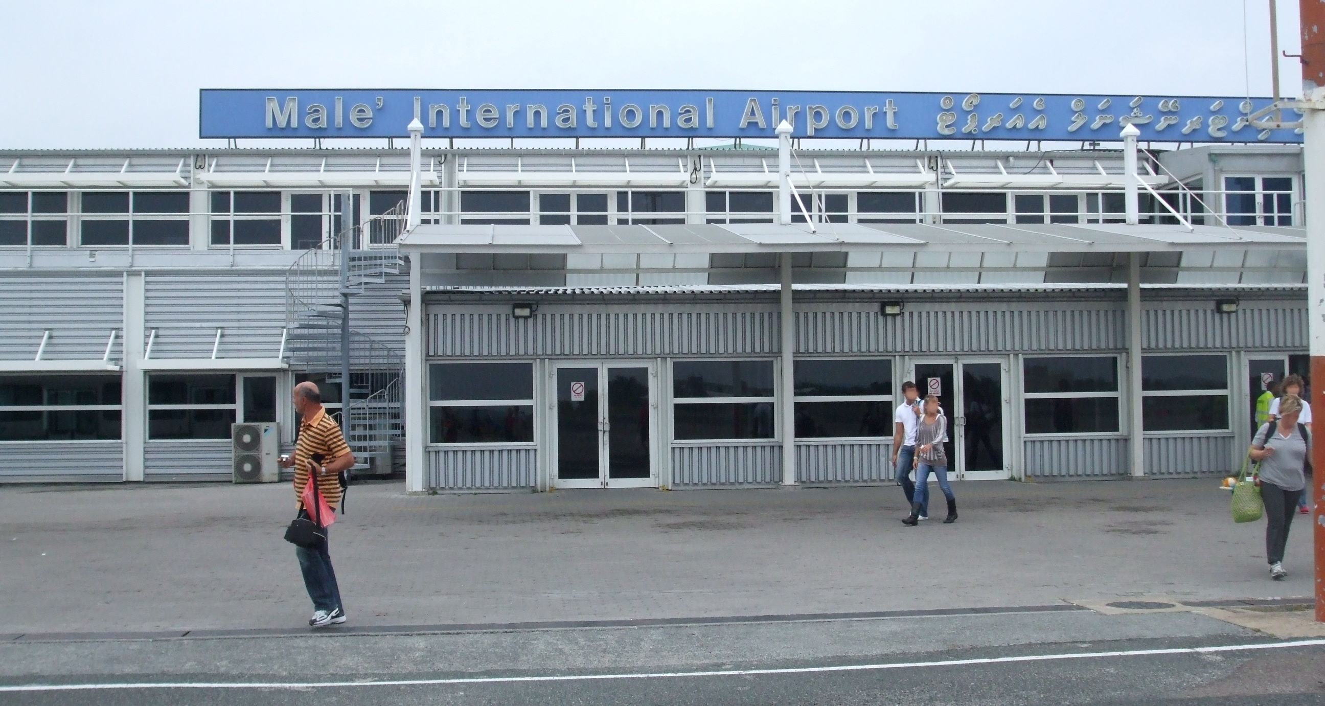 Airport Malé